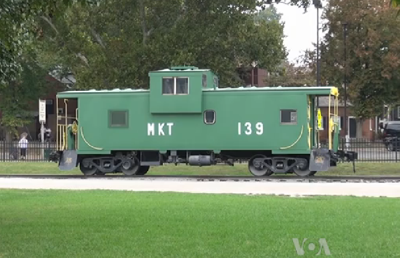 A green MKT caboose on display in SEDALIA, MISSOURI. Screen capture from the video shown.